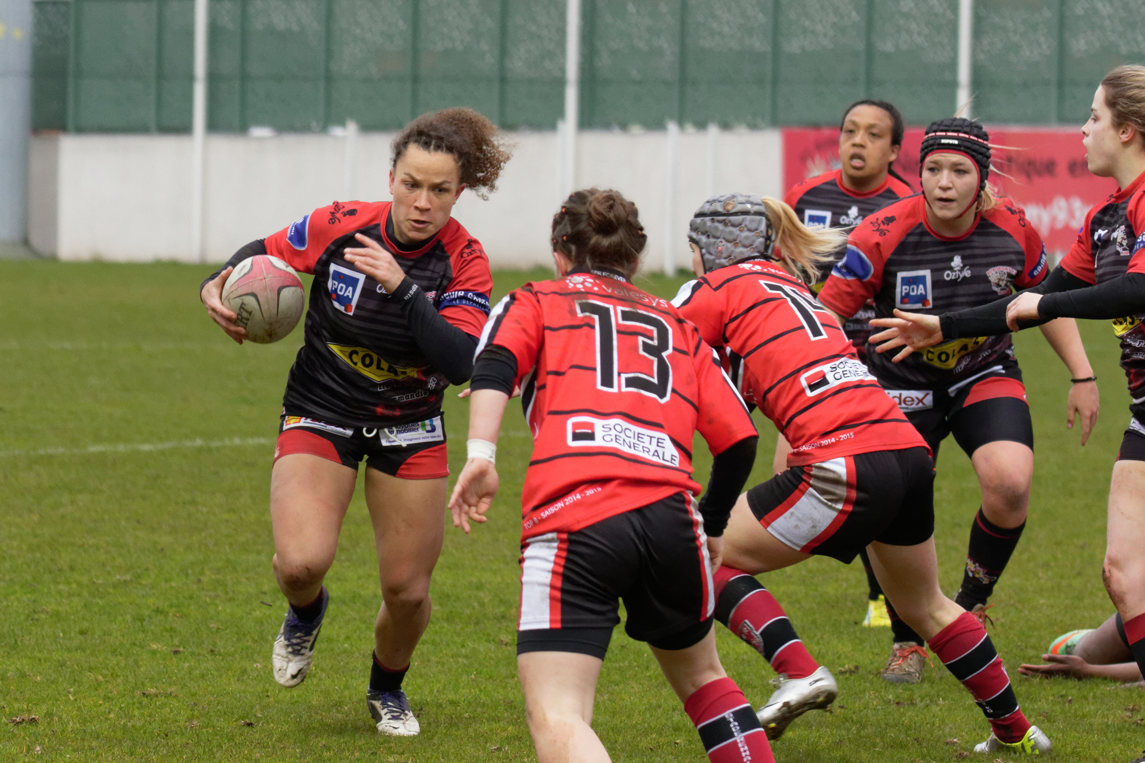 Bobigny vs Rennes, Top 8, 4th April 2015.